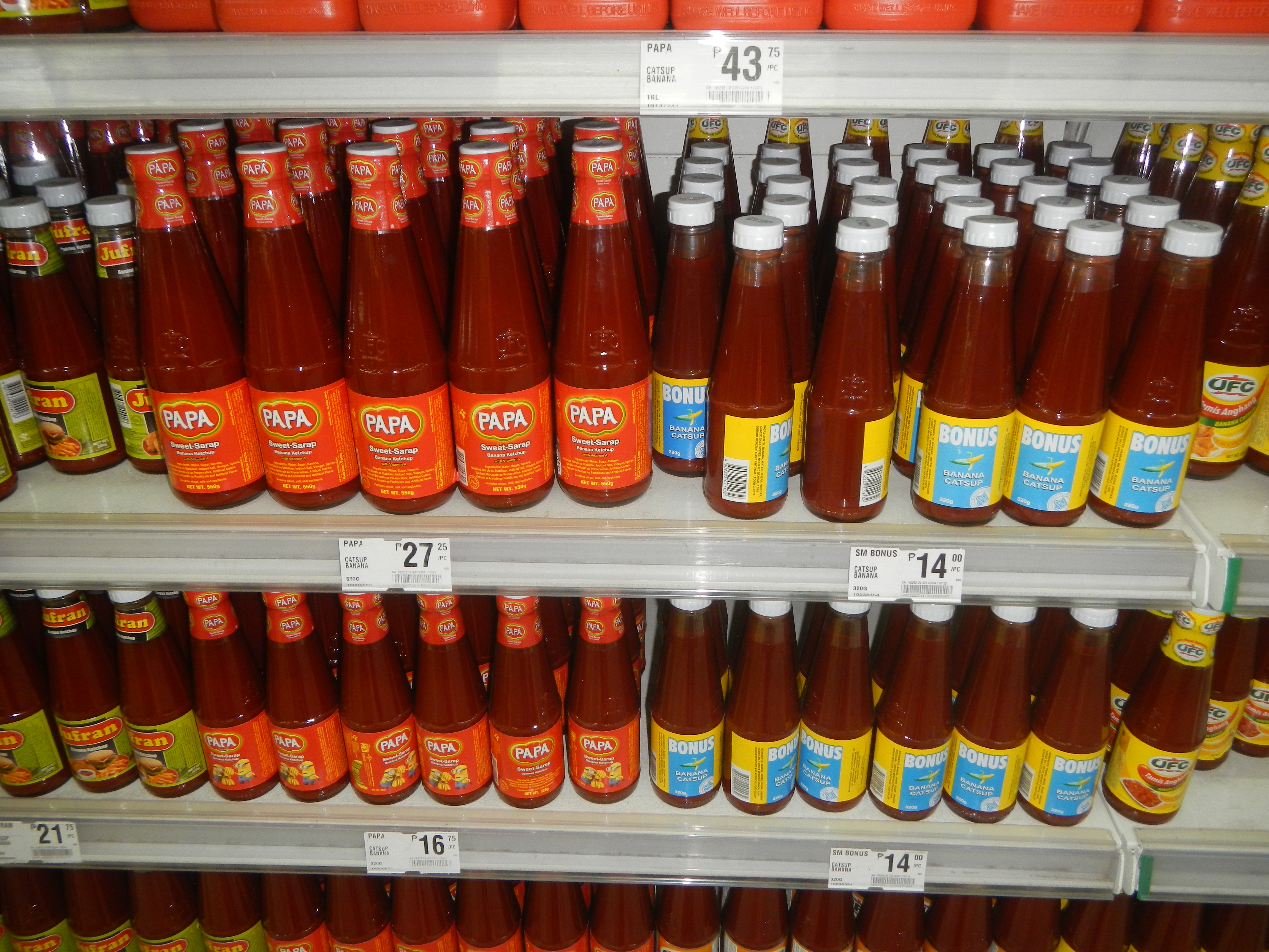 Philippine cuisine List of Philippine dishes Banana ketchup Lechon sauce Otap (food) Turon (food) Bicol express Laing Kaldereta Dinuguan Bopis Lechon kawali Longaniza Longaballs Tocneneng Barangay Pagala, 14°58'14"N 120°53'26"E Baliuag, Bulacan, Bulacan, along DRT Highway or Maharlika Highway (Cagayan Valley Road, Baliuag-Pulilan-Guiguinto, Bulacan) Pan-Philippine Highway, also known as the Maharlika "Nobility/freeman" Highway or Asian Highway 26, Cagayan Valley Road (Note: Judge Florentino Floro, the owner, to repeat, Donor Florentino Floro of all these photos hereby donate gratuitously, freely and unconditionally all these photos to and for Wikimedia Commons, exclusively, for public use of the public domain, and again without any condition whatsoever).